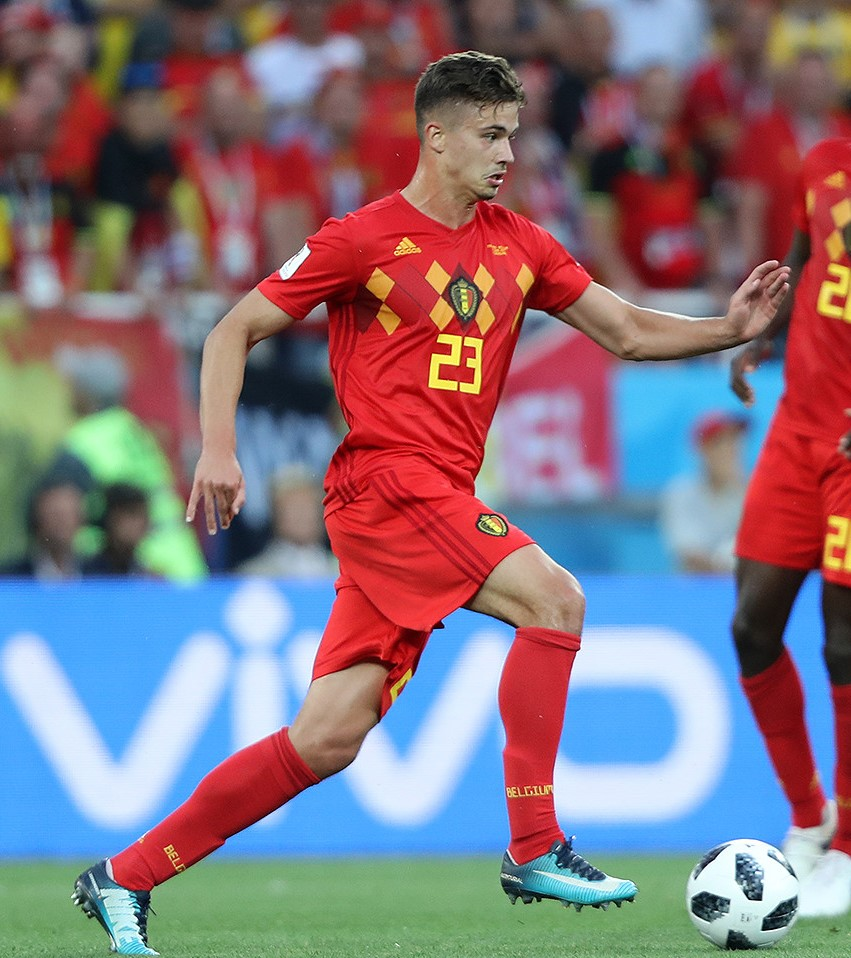 Leander Dendoncker